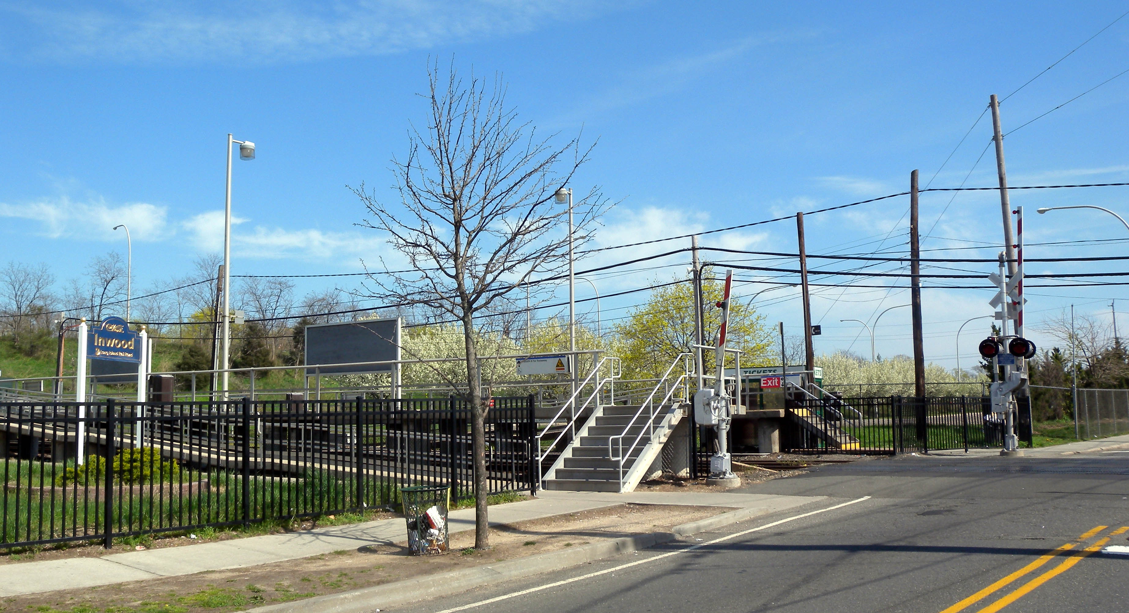 Looking southeast across Doghty Blvd at Inwood (LIRR station) on a sunny early afternoon.